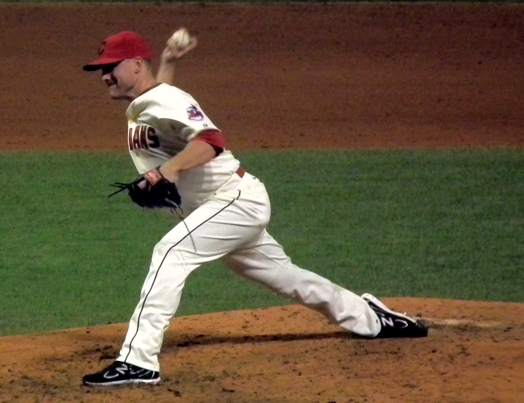 Joe Smith